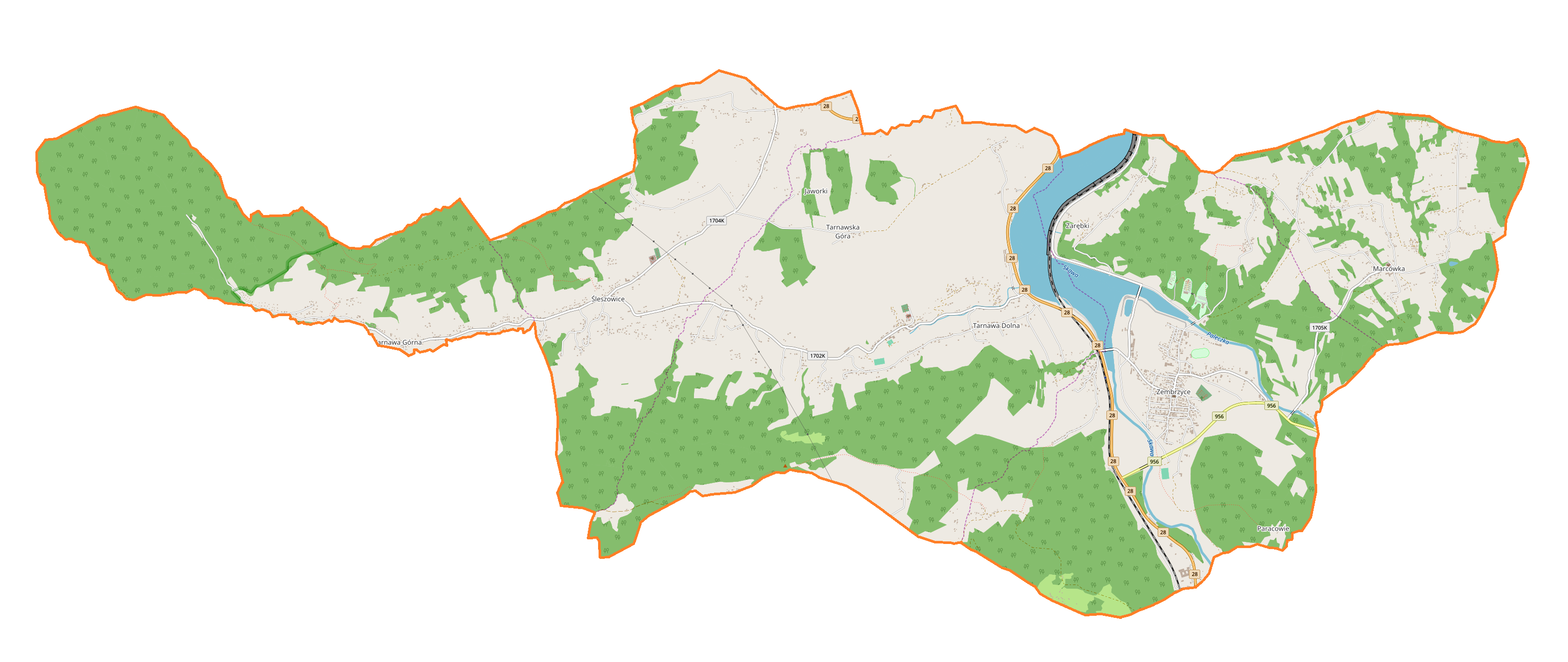 Location map